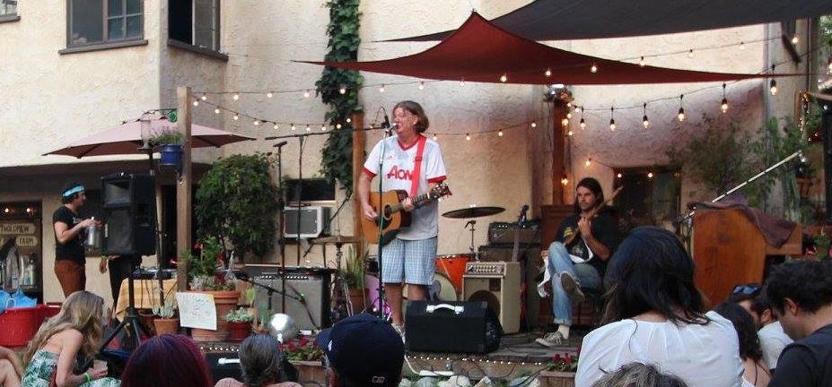 Los Angeles-based rock band The Black Watch performing in 2018